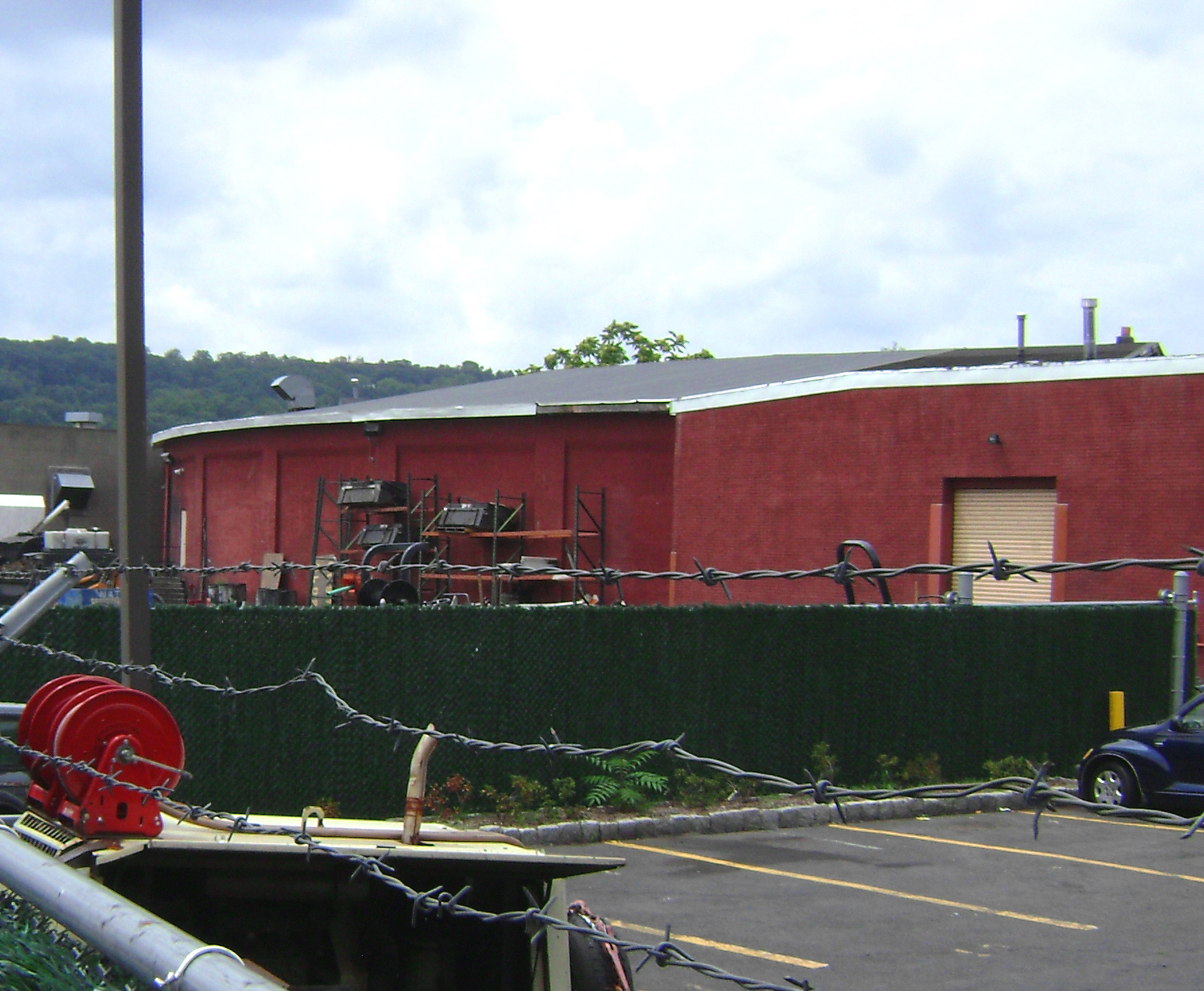 Rear view of a former roundhouse of the New York, Susquehanna and Western Railway, located in Hawthorne, New Jersey.